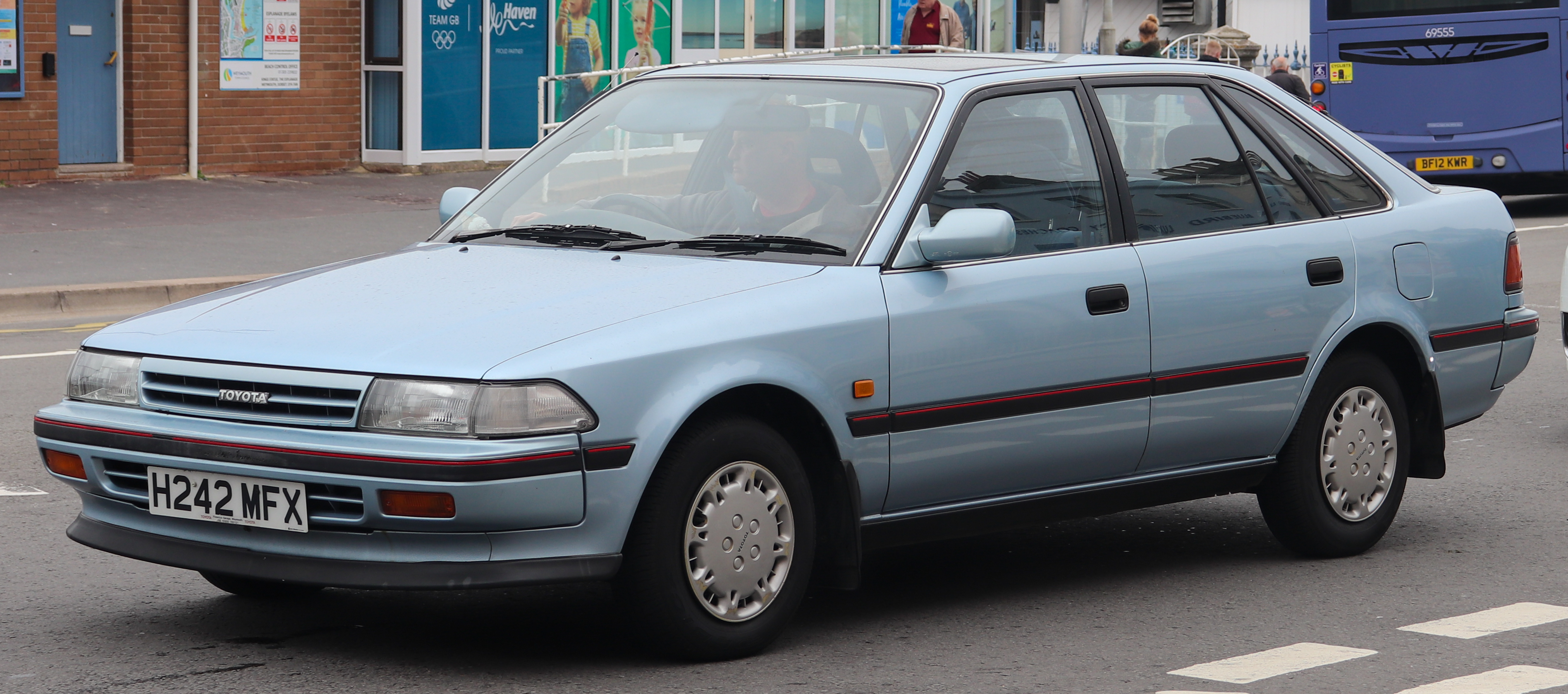 1991 Toyota Carina GL 1.6 Front Taken in Weymouth